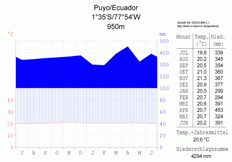 climate chart in the format by Walther and Lieth, metric, °Celsisus and millimeters, made with Geoklima 2.1